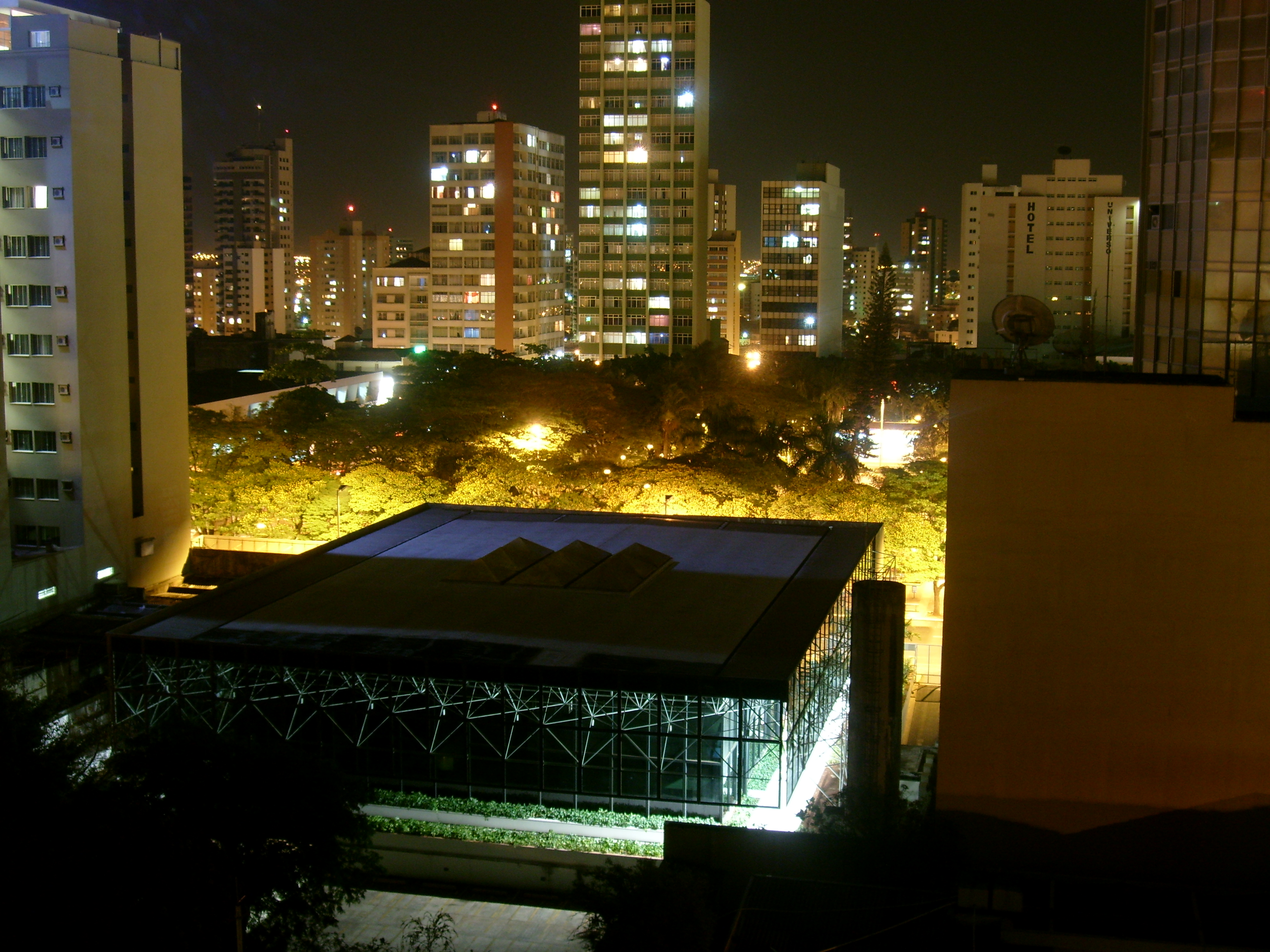 Praça Tuba Vilela - Photo taken approximately at 10 PM.